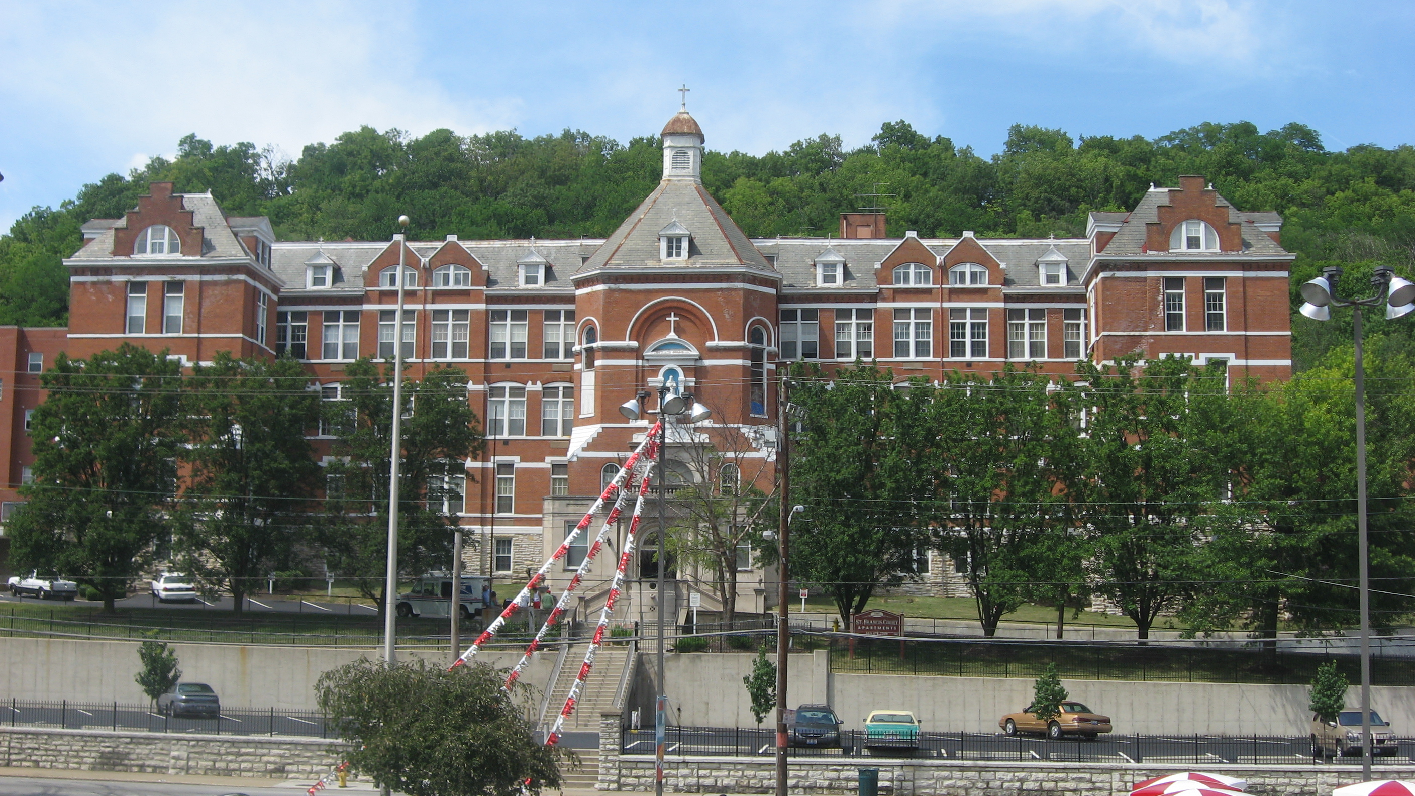 Front of St. Francis Hospital, located at 1860 Queen City Avenue in Cincinnati, Ohio, United States. Built in 1888, it is listed on the National Register of Historic Places.